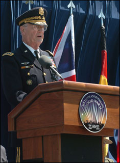 Frederick Kroesen from [1]